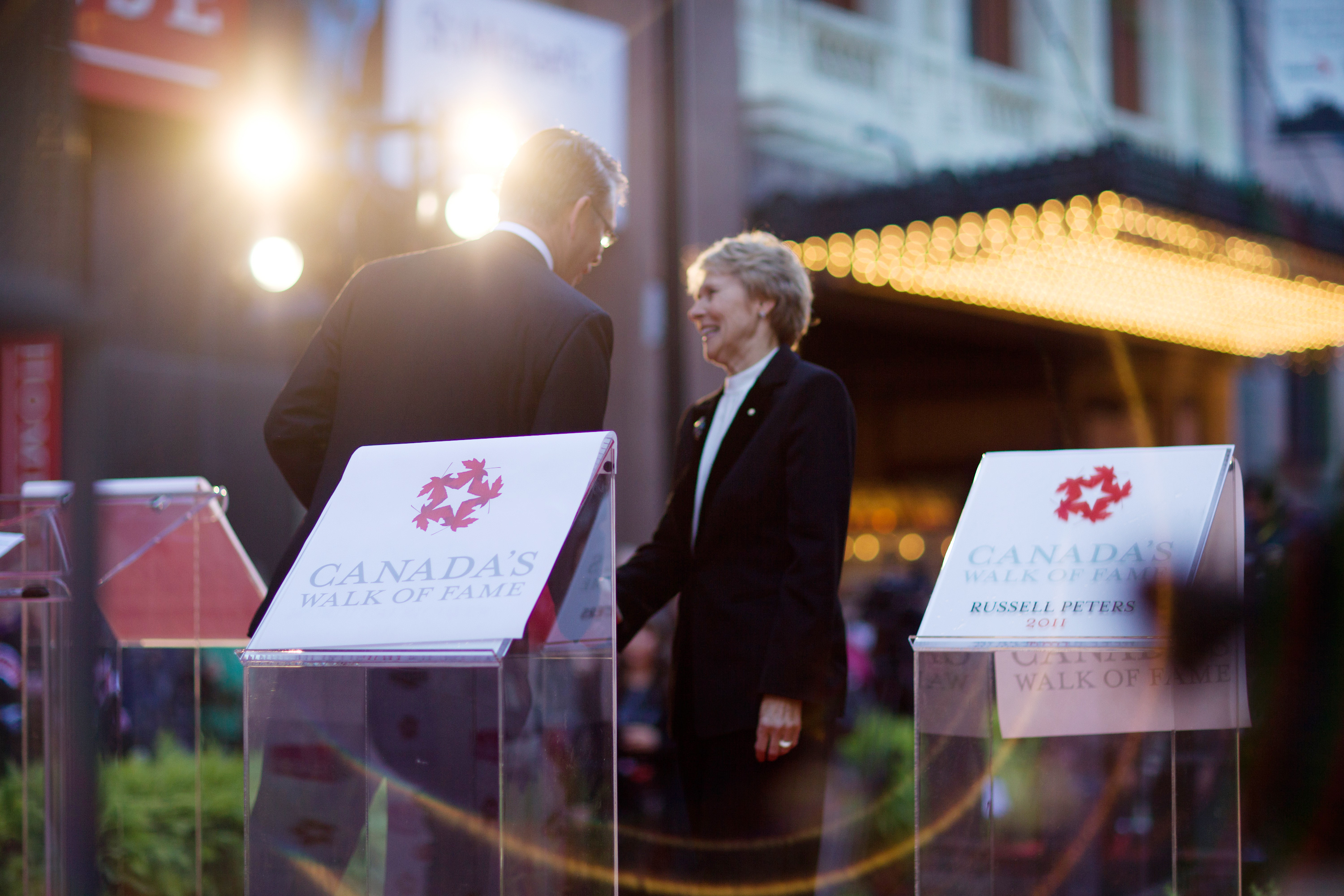 Roberta Bondar receives her star on Canada's Walk of Fame, 2011.